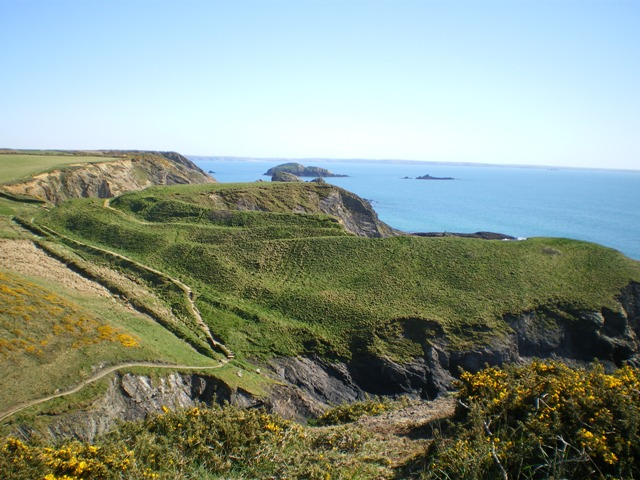 Porth y Rhaw hillfort from the west A clear series of ramparts and ditches has been constructed on the clifftop; when you're in amongst the excavations, it's hard to get a sense of the size and scale, so this distant view gives a better perspective.